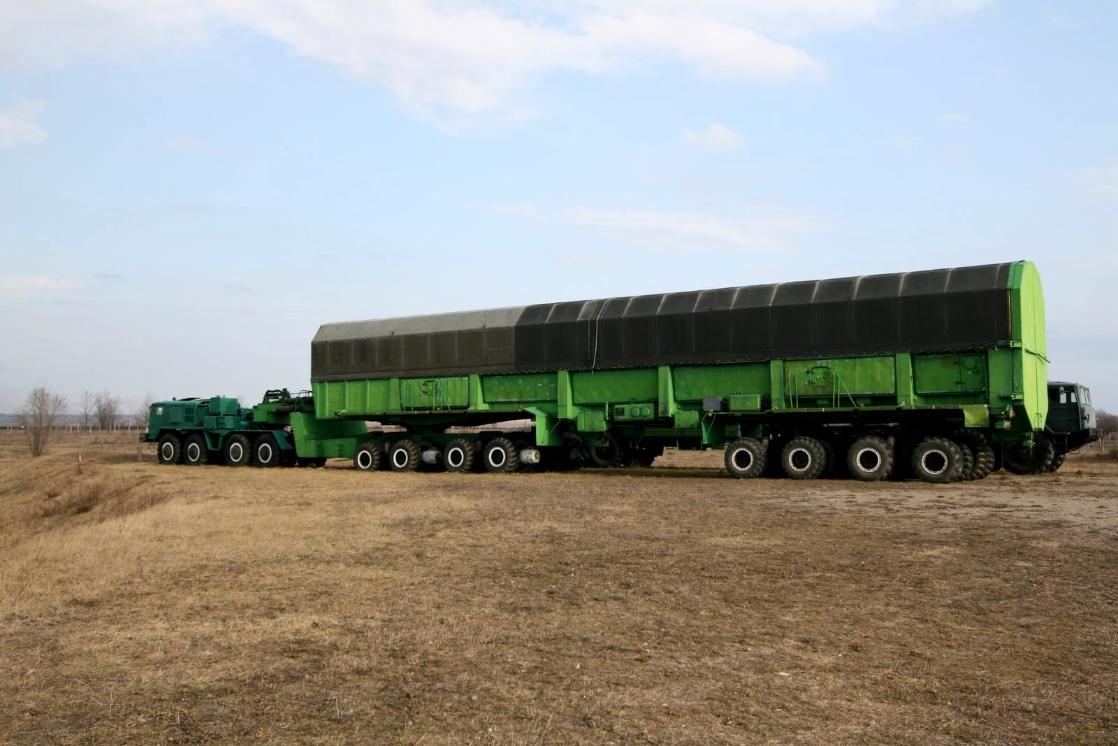 Specialised vehicle based on MAZ-537 truck. Designed to transport container with a missile and its load in silos.